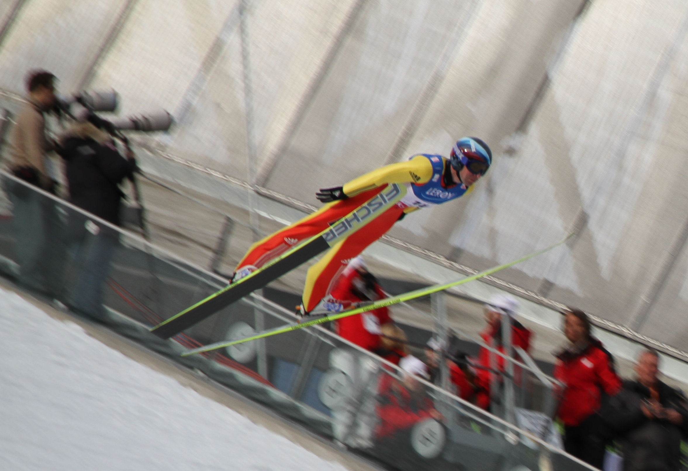 Holmenkollen World Cup March 11, 2012. Oslo, Norway.